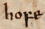 "hofe" (dwelling, house) from Beowulf, line number #1974. For the translation see Beowulf; a heroic poem of the 8th century, with tr., note and appendix by T. Arnold, 1876, p. 128.